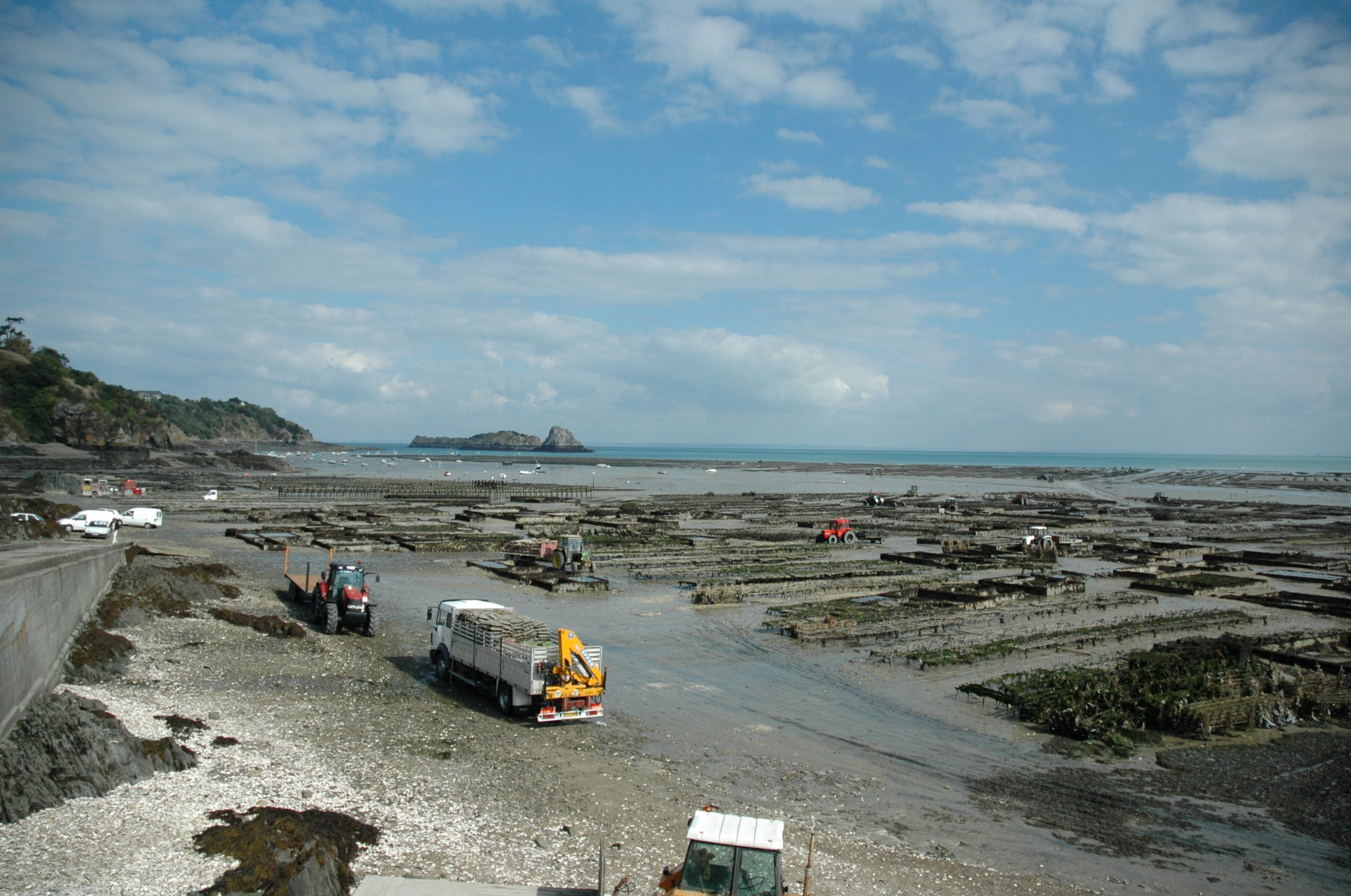 The oyster harvest from the pier at Cancale, Brittany